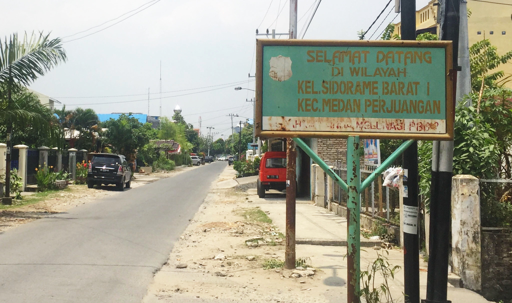 welcome gate to Sidorame Barat I, Medan Perjuangan, Medan